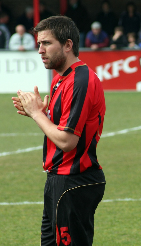 Adam Virgo playing for Brighton & Hove Albion's reserve team.